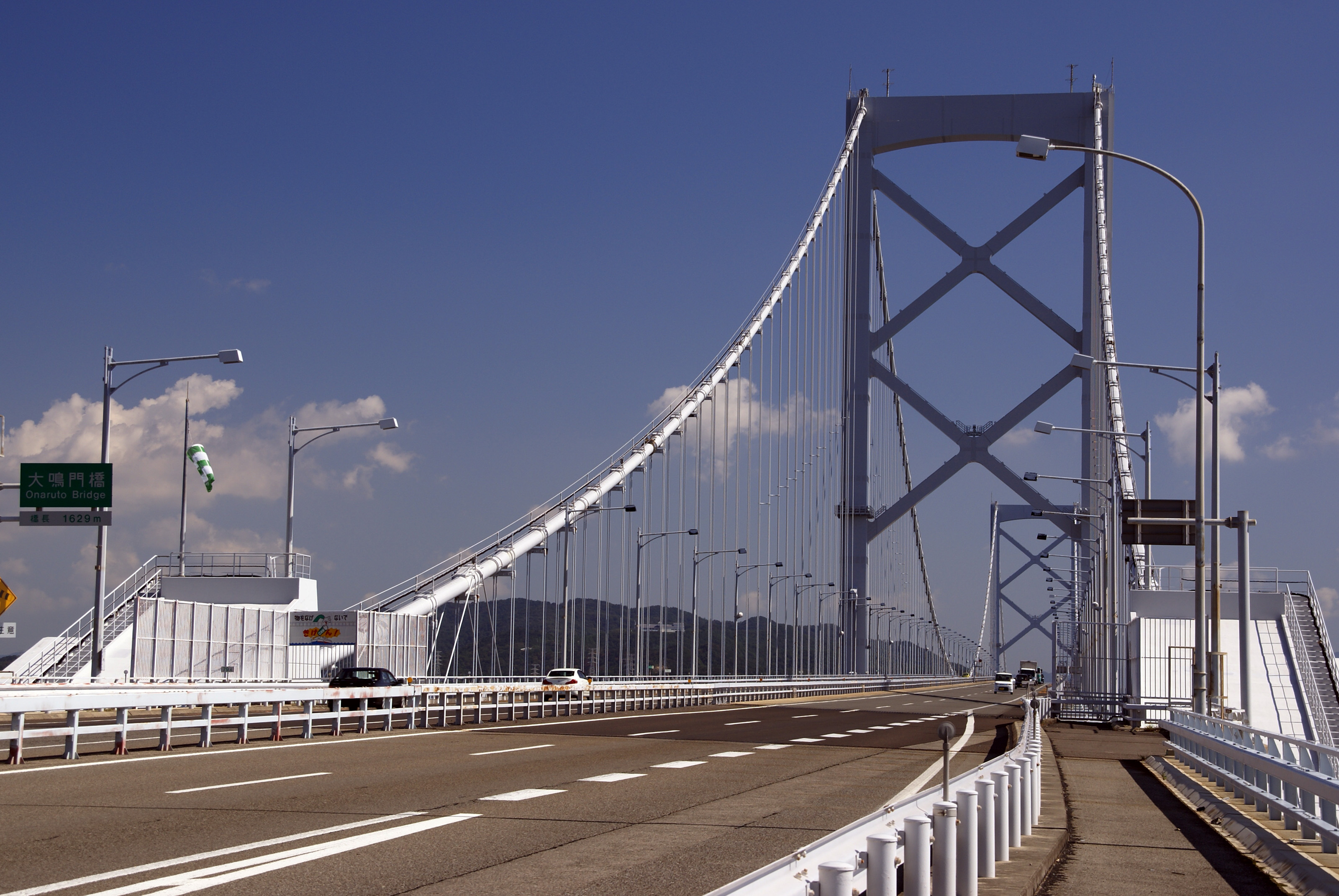 Big Naruto Bridge at Naruto, Tokushima prefecture, Japan